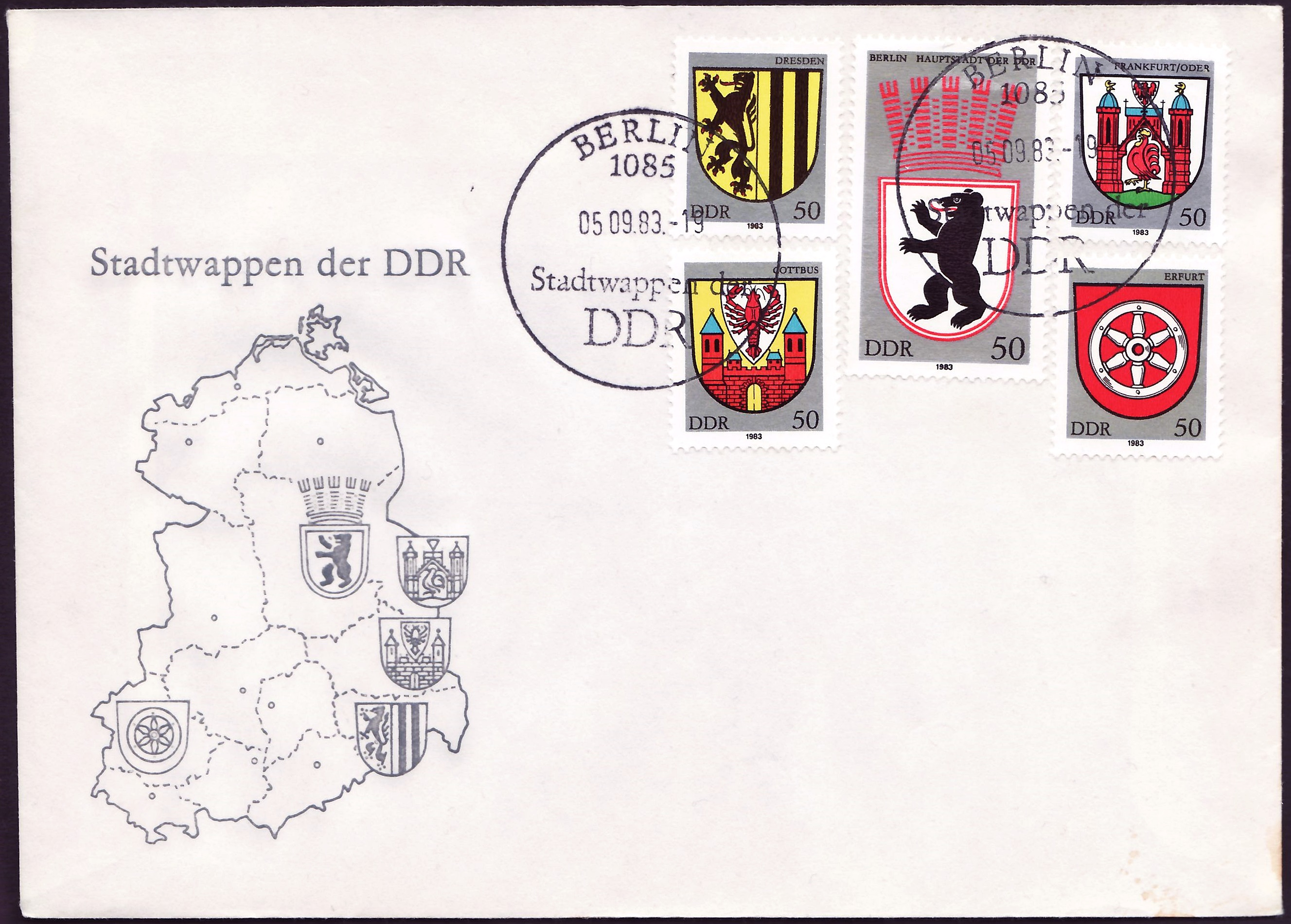 Souvenir envelope of the German Democratic Republic; 1983; envelope to the commemorative issue "City coats of arms of the GDR"; envelope motive with a map in grey color of the GDR with marking of the single district locations to the used stamps; envelope franked with the stamps GDR Michel-No. 2817 -2821 (motive: coat of arms, each with 1 from 5 of the then district capitals), stamps postmarked with a special postmark to the same occasion with 1085 Berlin from 5 September 1983 with 35.0 mm diameter Stamps: - Michel: No. 2817 (Berlin); No. 2818 (Cottbus); No. 2819 (Dresden); No. 2820 (Erfurt), No. 2821 (Frankfurt/Oder); - Yvert & Tellier: No. 2460 (Berlin); No. 2461 (Cottbus); No. 2462 (Dresden), No. 2463 (Erfurt), No. 2464 (Frankfurt/Oder); - Scott: No. 2364 (Berlin); No. 2365 (Cottbus); No. 2366 (Dresden); No. 2367 (Erfurt); No. 2368 (Frankfurt/Oder) Color: multicolored with silver on luminescent paper (stamps) Watermark: none Nominal value: 2,50 Mark (5 x 50 Pfennig) Postage validity: from 9 August 1983 until 2 October 1990 date QS:P,+1950-00-00T00:00:00Z/7,P580,+1983-08-09T00:00:00Z/11,P582,+1990-10-02T00:00:00Z/11 Stamp picture size (printed area without year line): 21.5 x 38.0 mm (Berlin); 22.0 x 21.0 (others) Postmark: 1085 Berlin , 5 September 1983, special postmark with 35.0 mm diameter